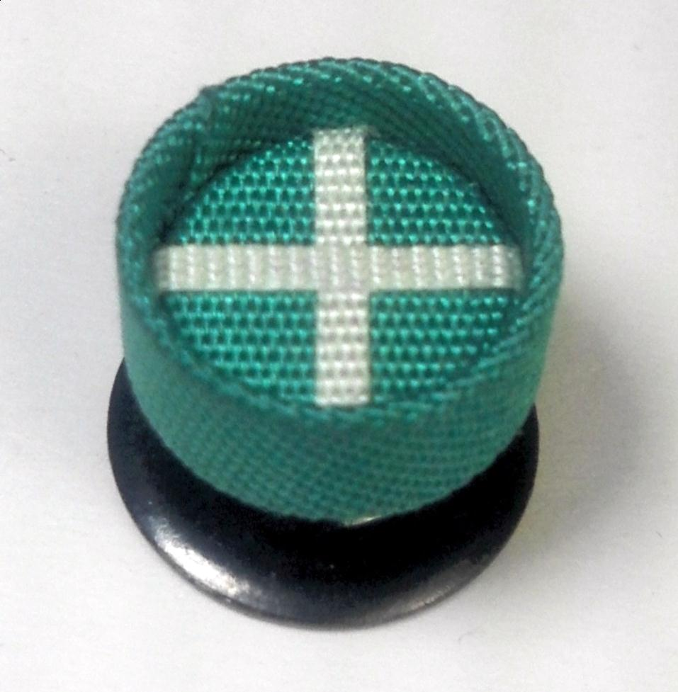 Rosette of Order of the Golden Kite 7th Class.